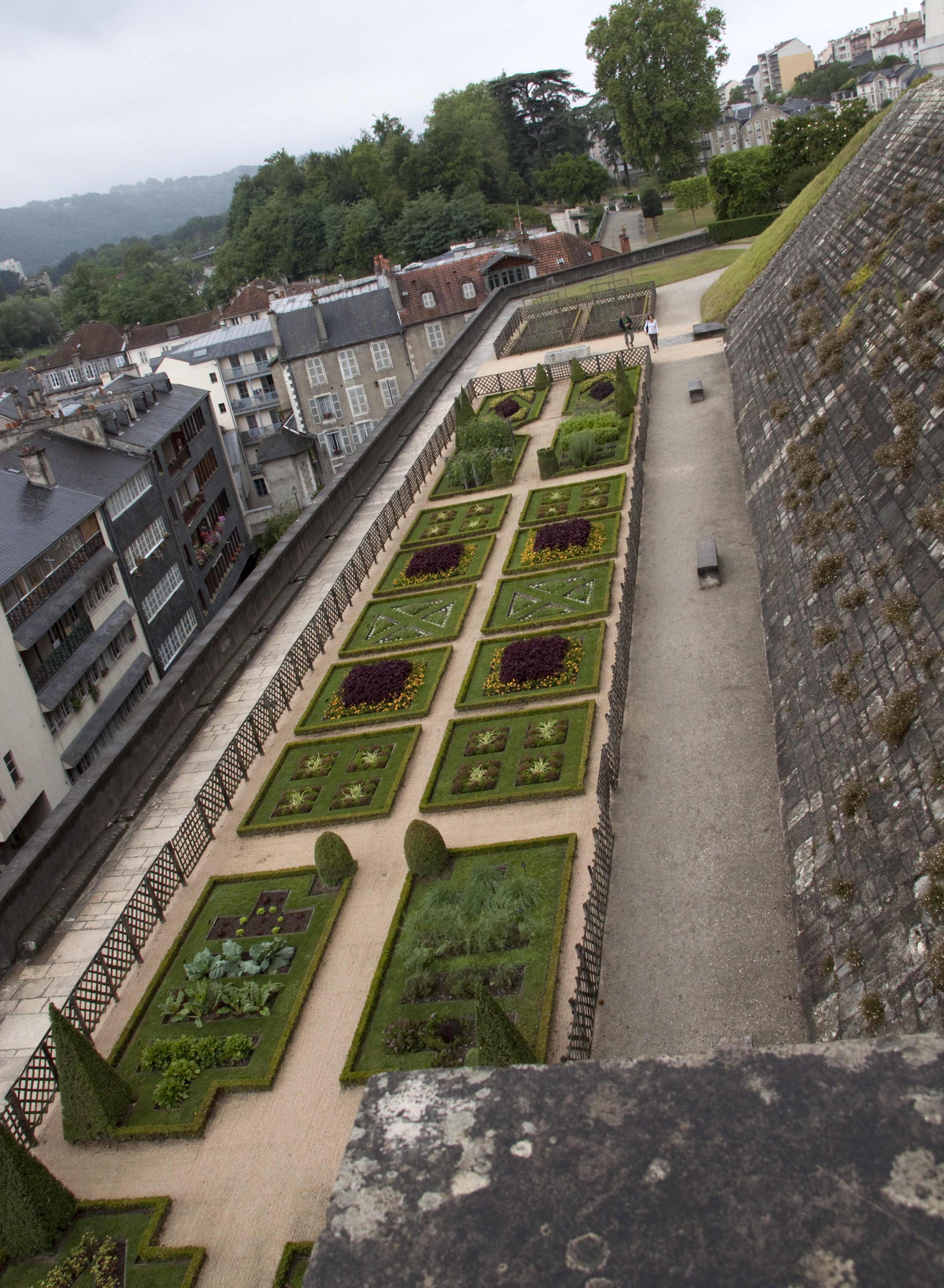 Garden of Pau Castle, Pyrénées-Atlantiques, France